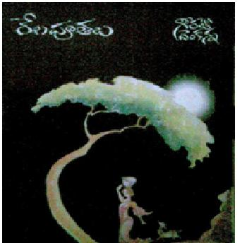 ముఖపత్రం